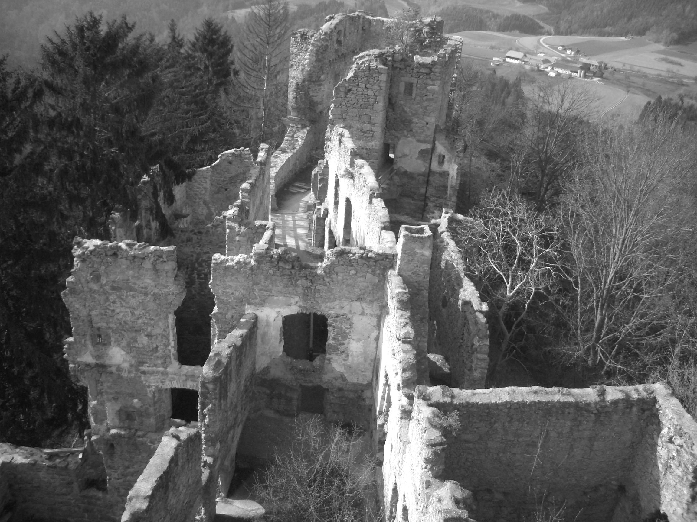 Wall structures of ruin Prandegg in Upper Austria